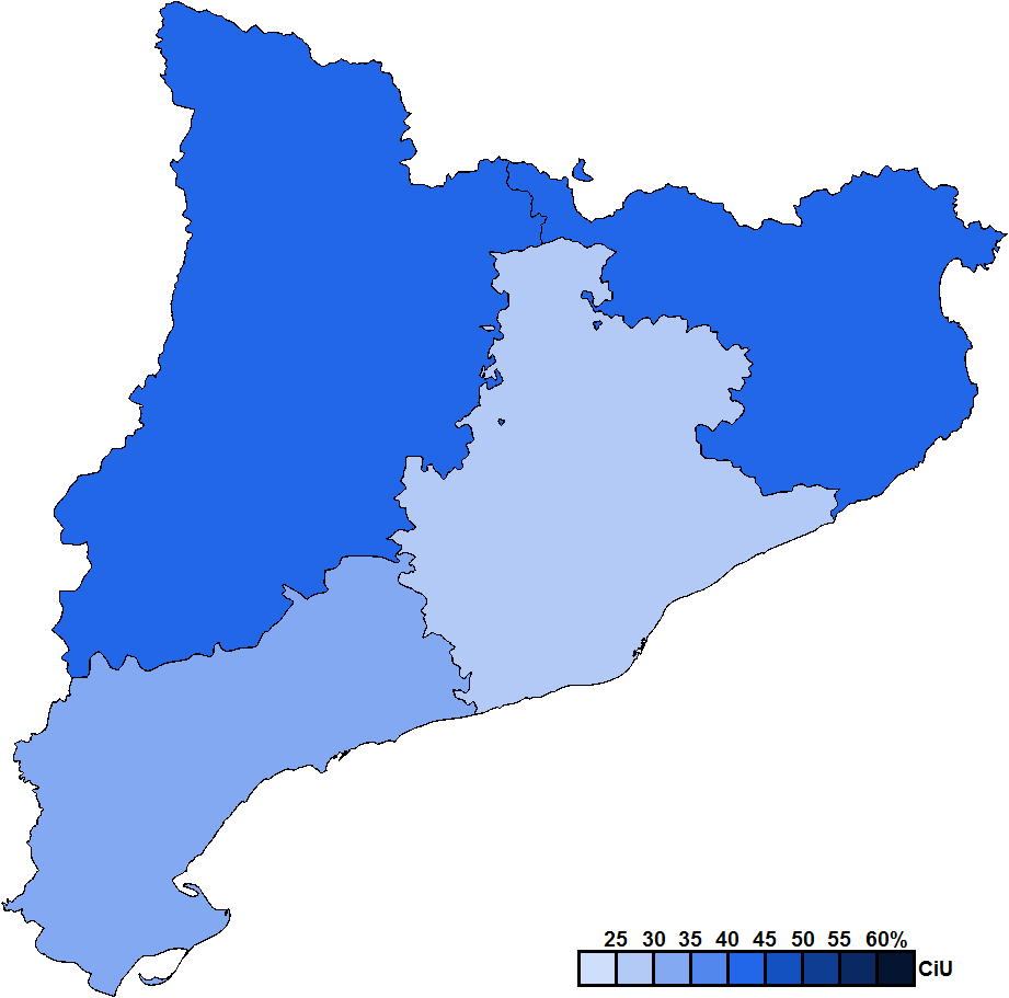 Provincial results for the 2012 Catalan regional election.